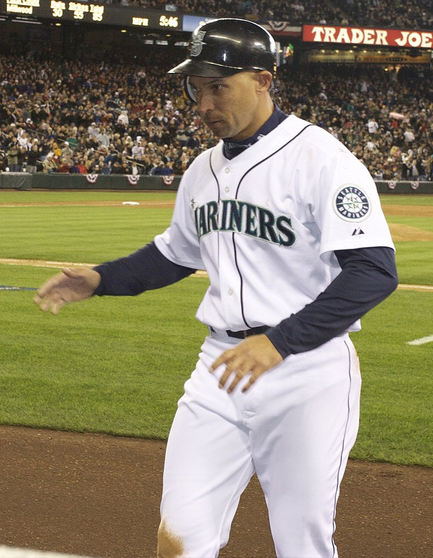 Raul Ibanez entering the dugout